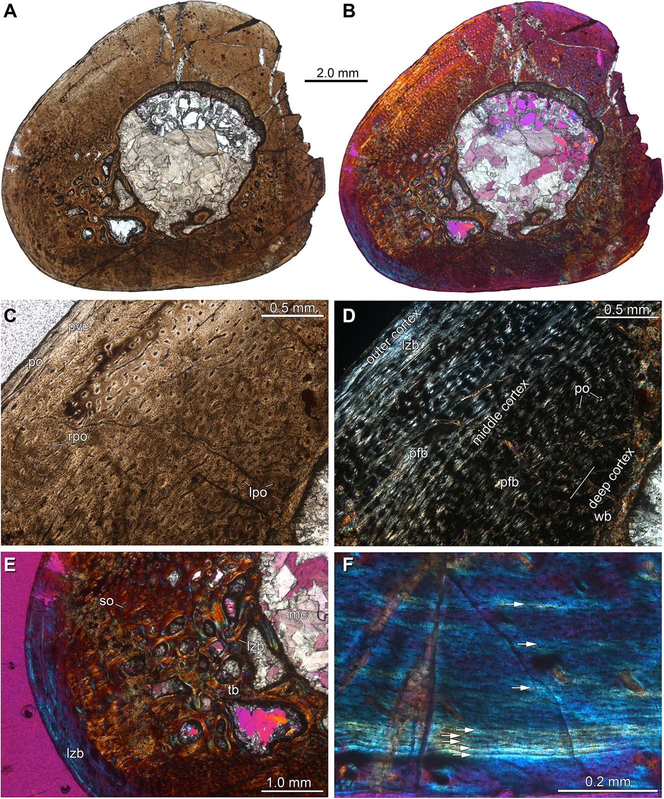 Aenigmastropheus parringtoni, an early archosauromorph from the middle Late Permian of Tanzania. Paleohistological slices of possible left humerus (UMZC T836, holotype). Overview of the bone section in normal light (A) and cross-polarized light with lambda compensator (B); upper left quadrant showing the complete section of the cortex, in which the medullary cavity is to the lower right of the image, in normal (C) and cross-polarized light (D); lower left quadrant showing the complete section of the cortex in cross-polarized light with lambda compensator (E); and close-up of the outer part of the periosteal cortex in cross-polarized light with lambda compensator (F). White arrows in (F) indicate lines of arrested growth (LAGs). Abbreviations: lpo, longitudinal primary osteons; lzb, lamellar-zonal bone; mc, medullary cavity; pfb, parallel-fibred bone; po, primary osteons; pvc, primary vascular canal; rpo, reticular primary osteons; so, secondary osteons; tb, trabecular bone; wb, woven bone.